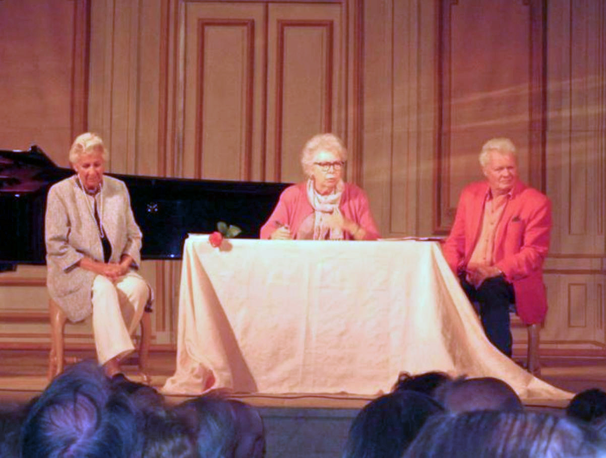 Christina Magnuson chairs the annual membership meeting of Friends of Confidencen with Kjerstin Dellert & Nils-Åke HäggbomPlace: Ulriksdal Palace Theater Solna, Sweden